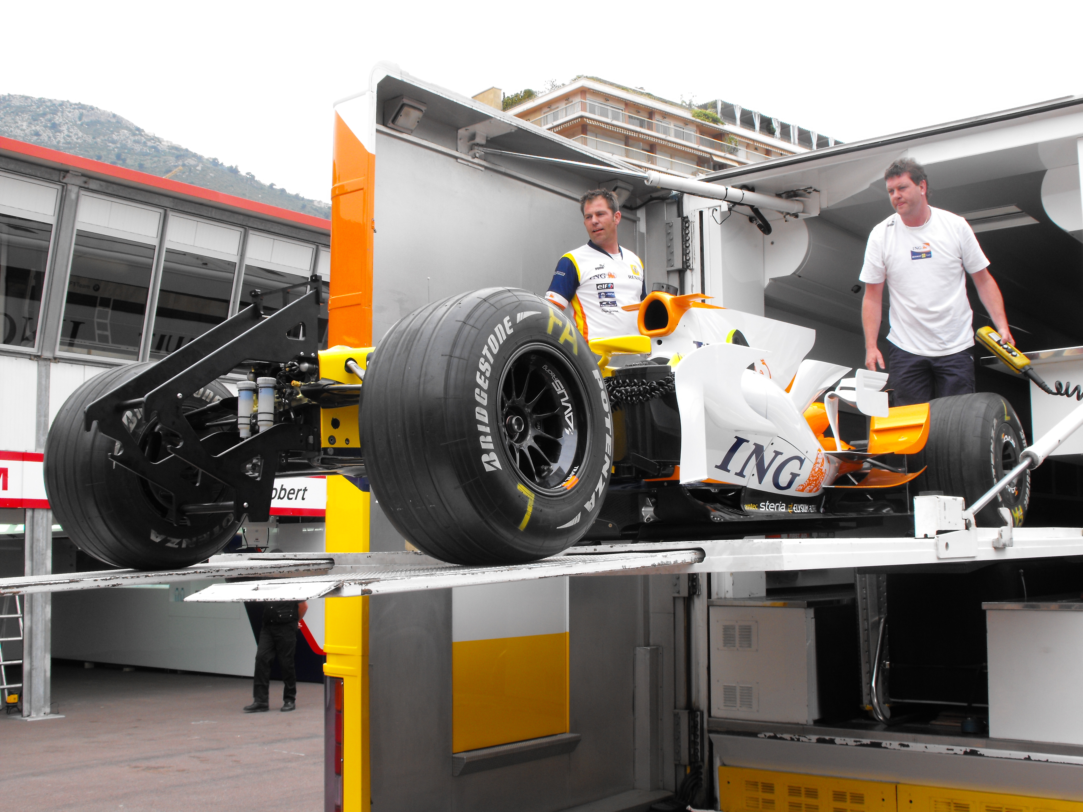 Two Renault R28 Formula 1 racing cars being unloaded from the Renault trailer at the pit lane at the 2008 Monaco Grand Prix.